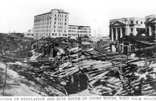 Devastation from the 1928 Okeechobee hurricane in West Palm Beach, Florida, from south of the courthouse